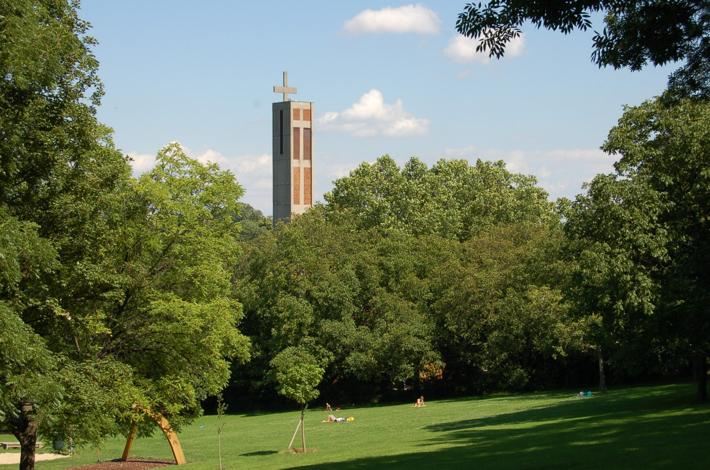 Spire of Poetzleinsdorf parish church (Vienna's 18th district) as viewed from Pötzleinsdorfer Schlosspark